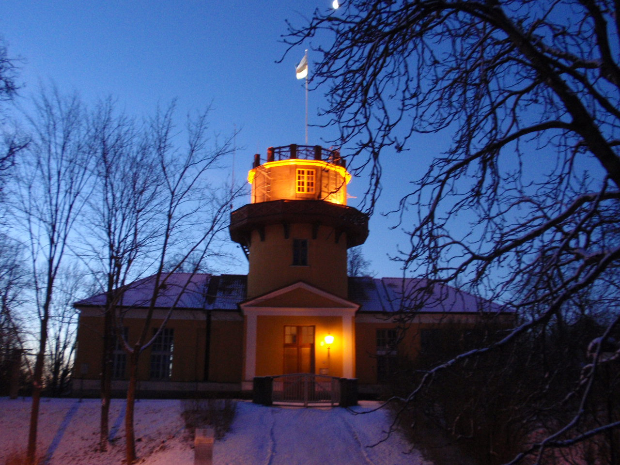 Tartu Observatory on Toomemägi, 2008.